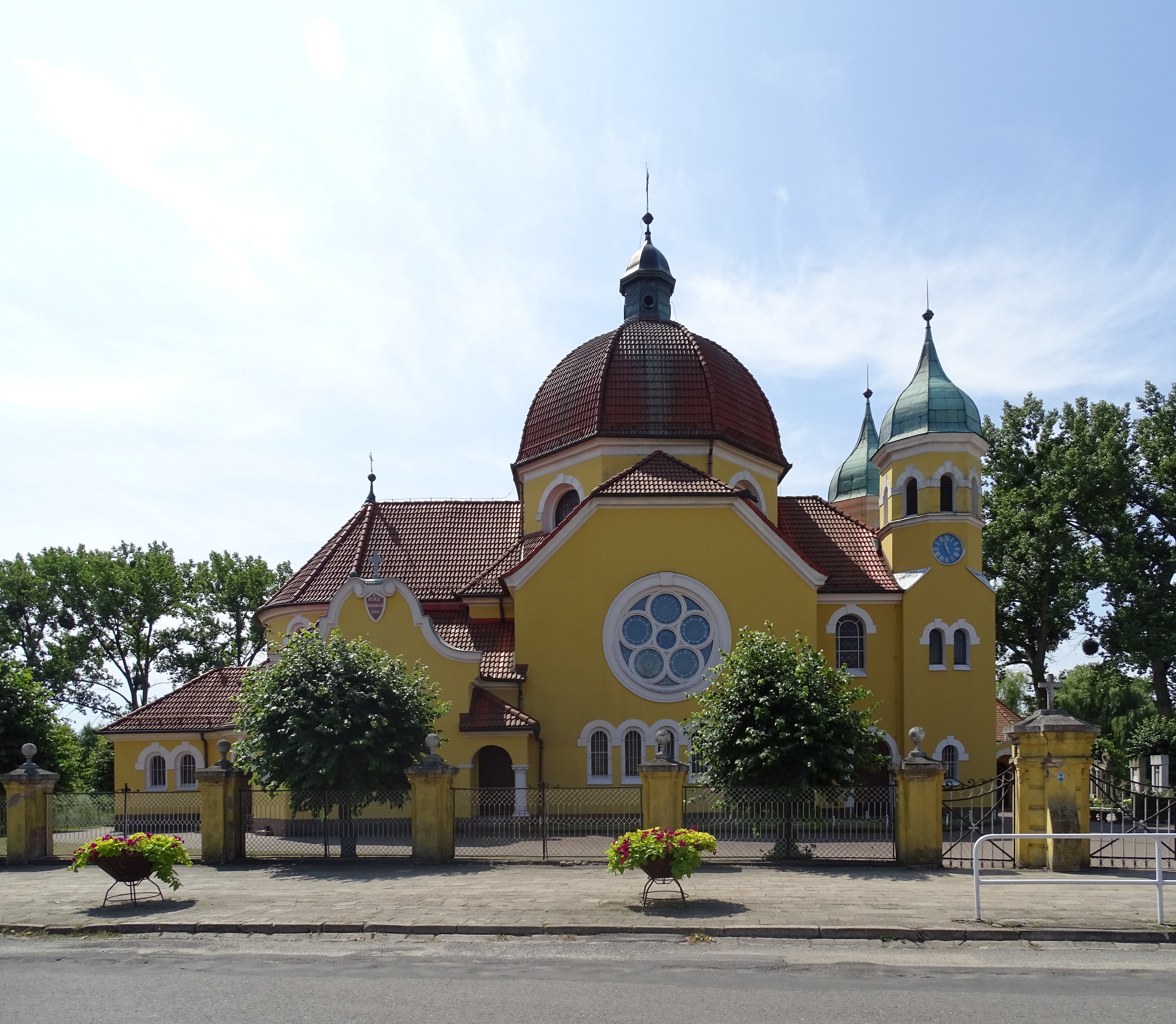 Nekla, Greater Poland. Church of Saint Andrew the Apostle, completed in 1901.